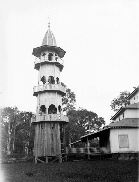 Minaret